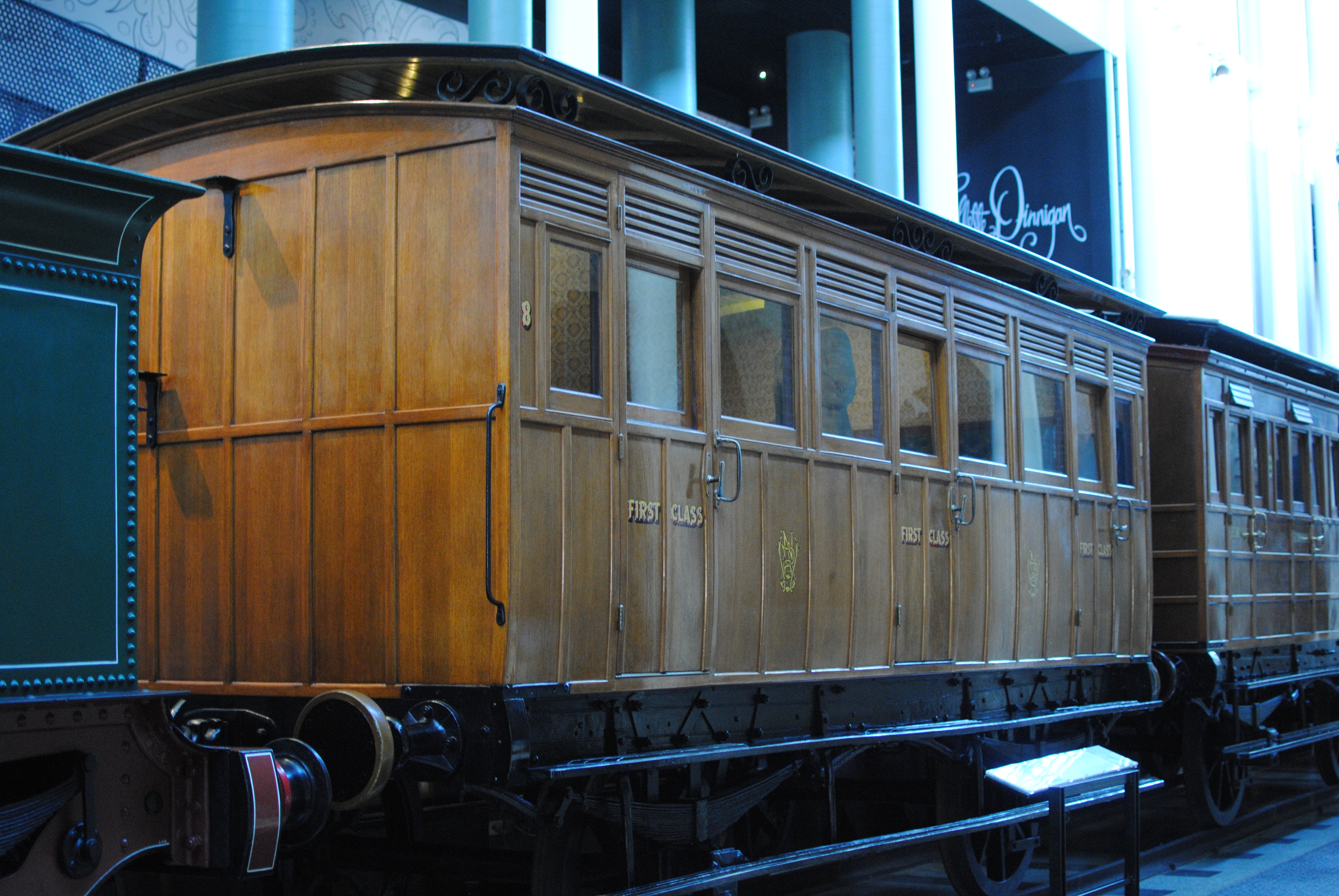 in the Powerhouse Museum, Sydney, NSW, Australia. [Camera's clock set to UTC]